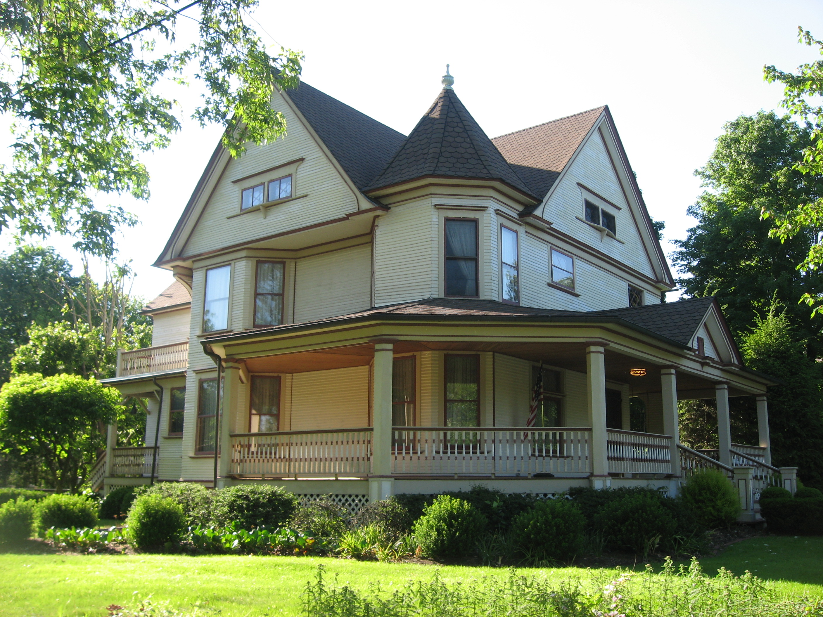 Front and southern side of the Crawford-Winslow House, located at 357 S. Main Street in Crown Point, Indiana, United States. Built in 1890, it is listed on the National Register of Historic Places.